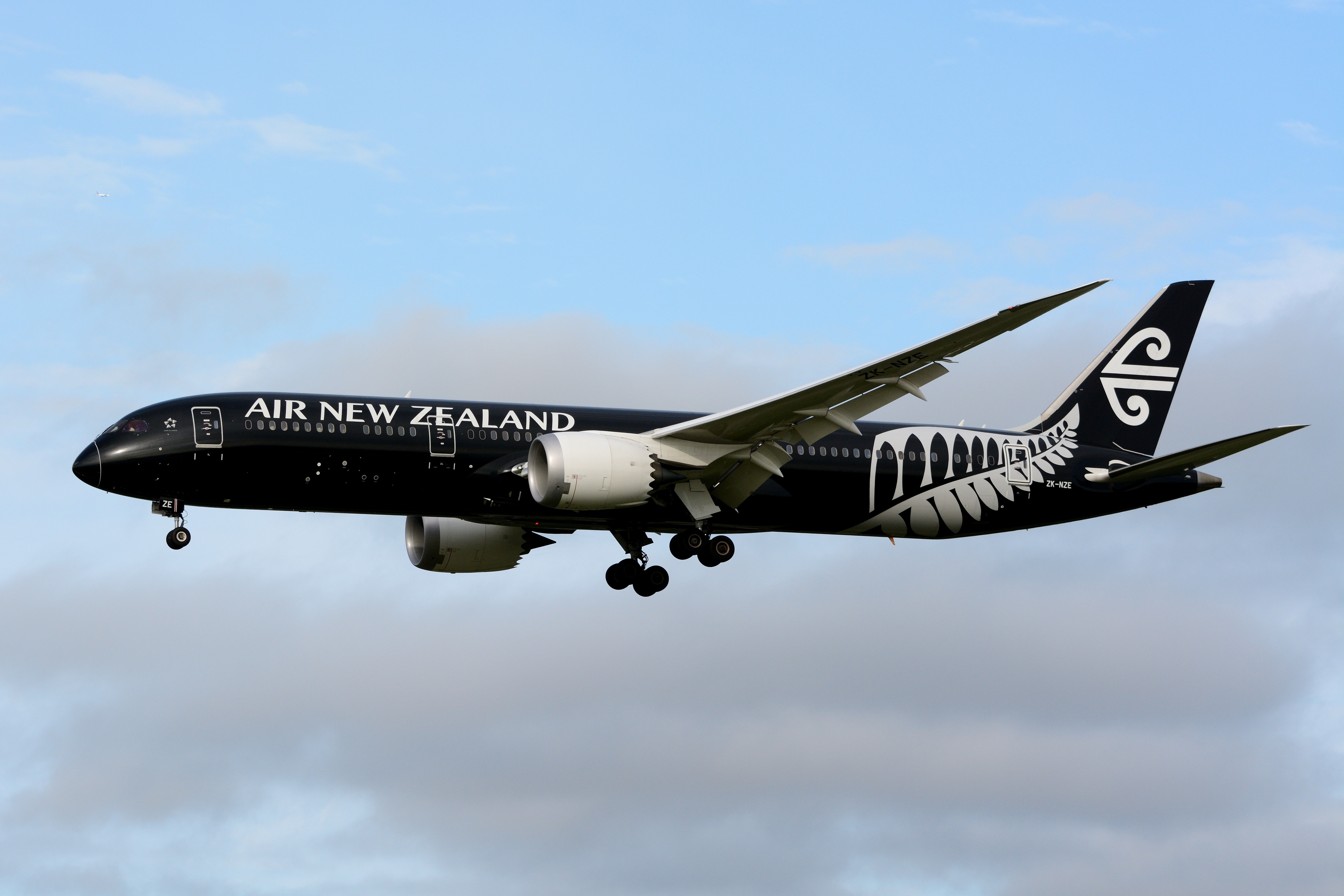 Air New Zealand Boeing 787 (All Blacks livery) at Narita International Airport